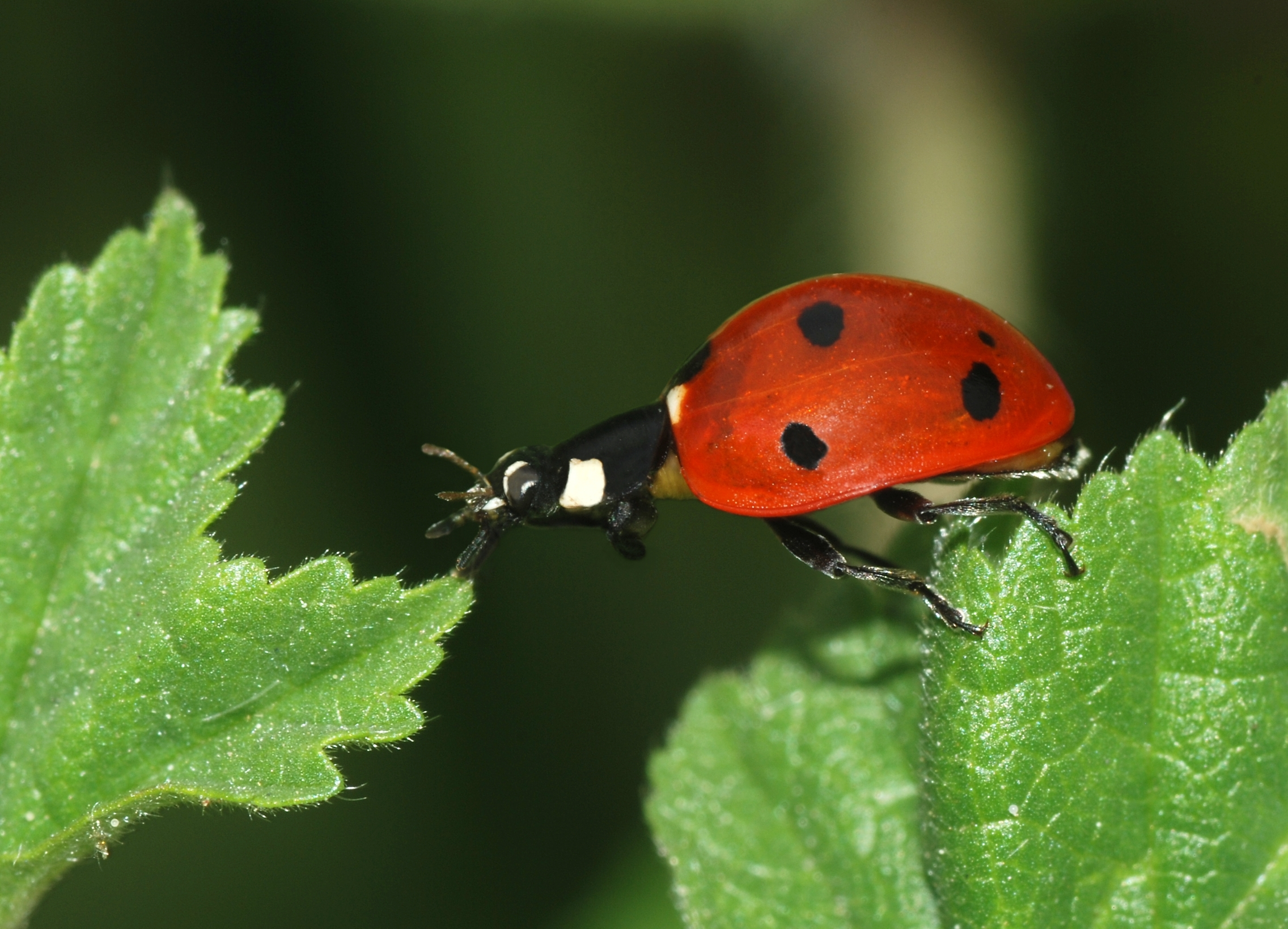 A Ladybird (Coccinella septempunctata).